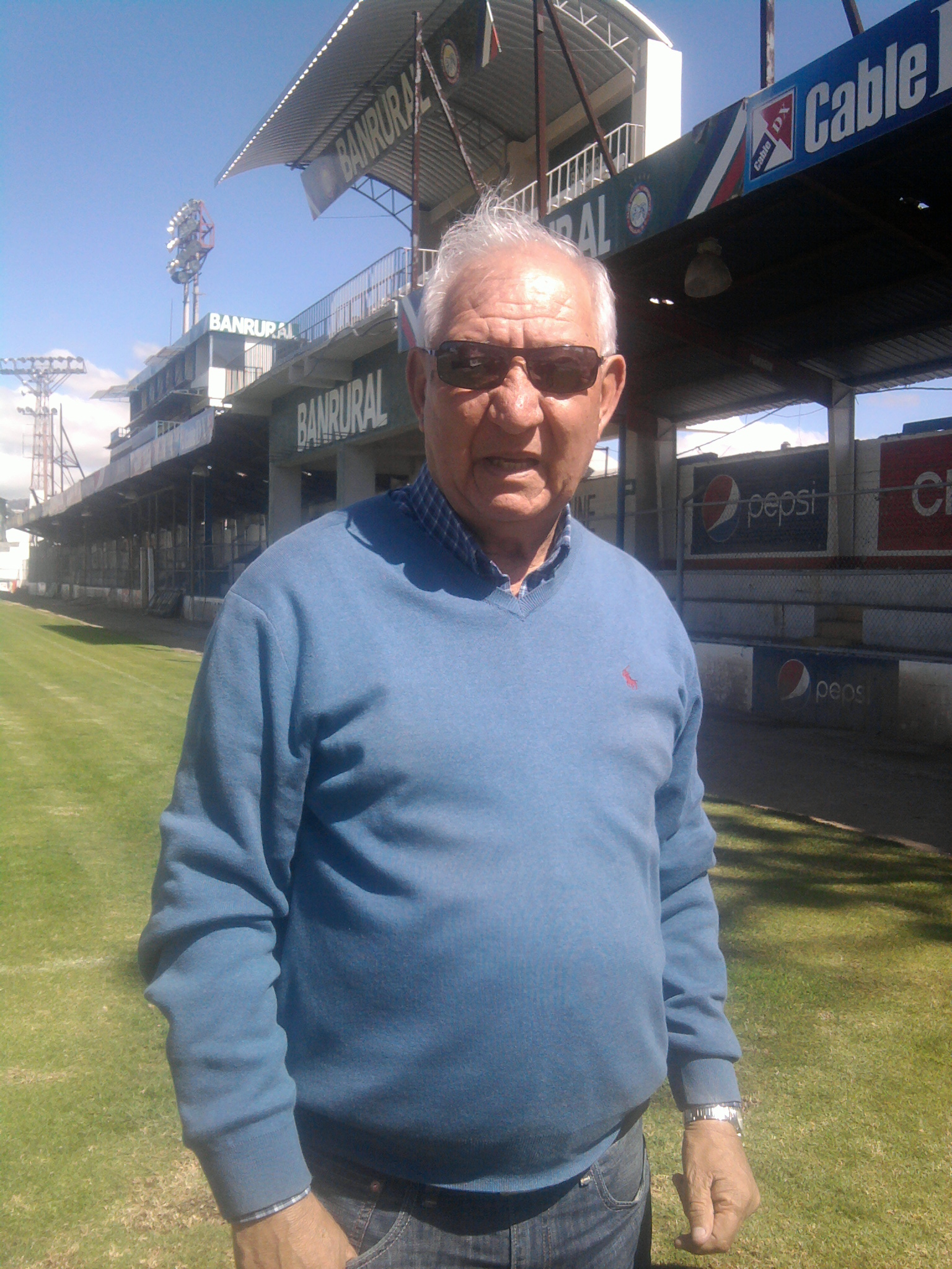 Head Coach Carlos Daniel Jurado